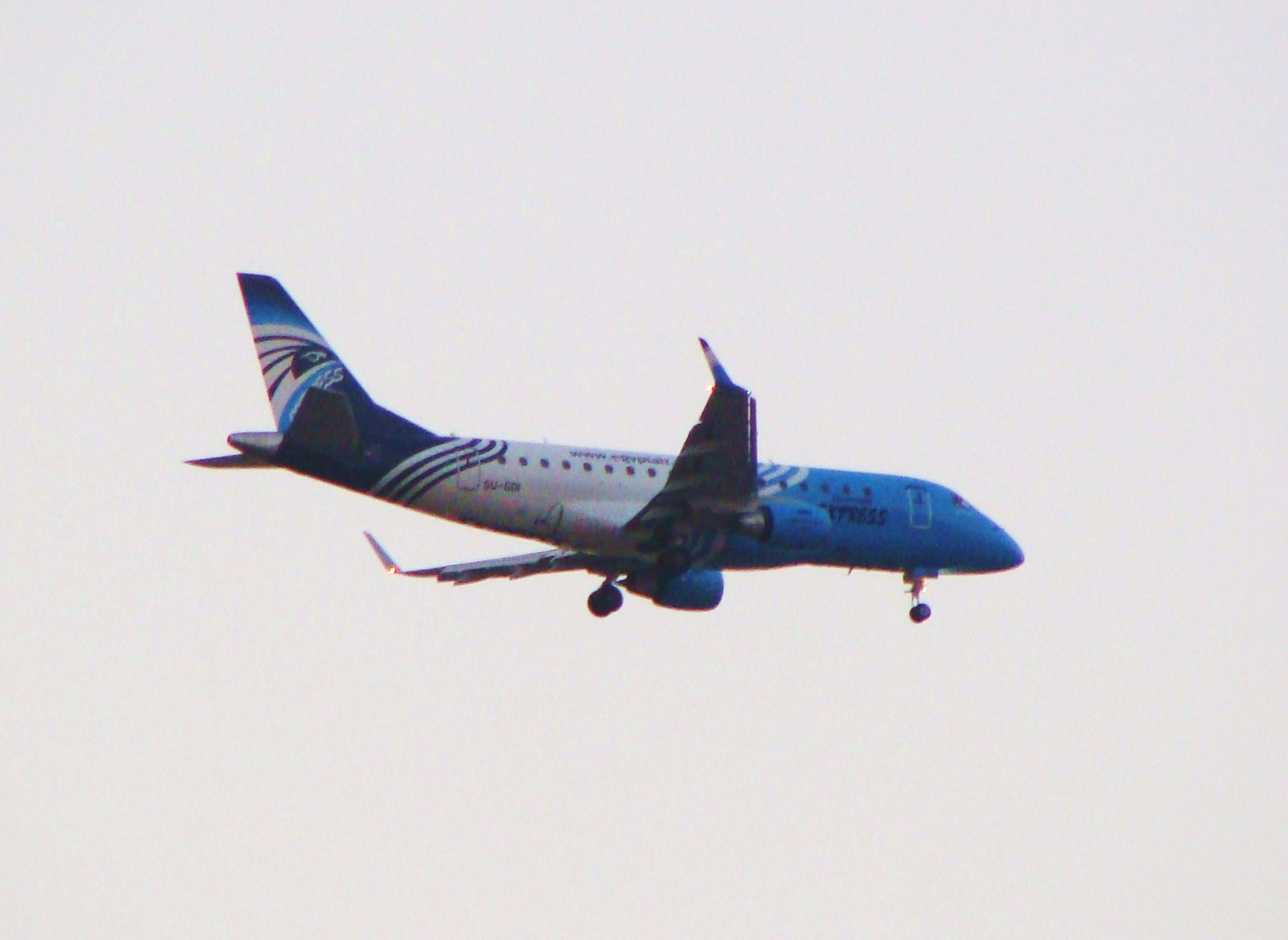 EgyptAir Express - Embraer 170